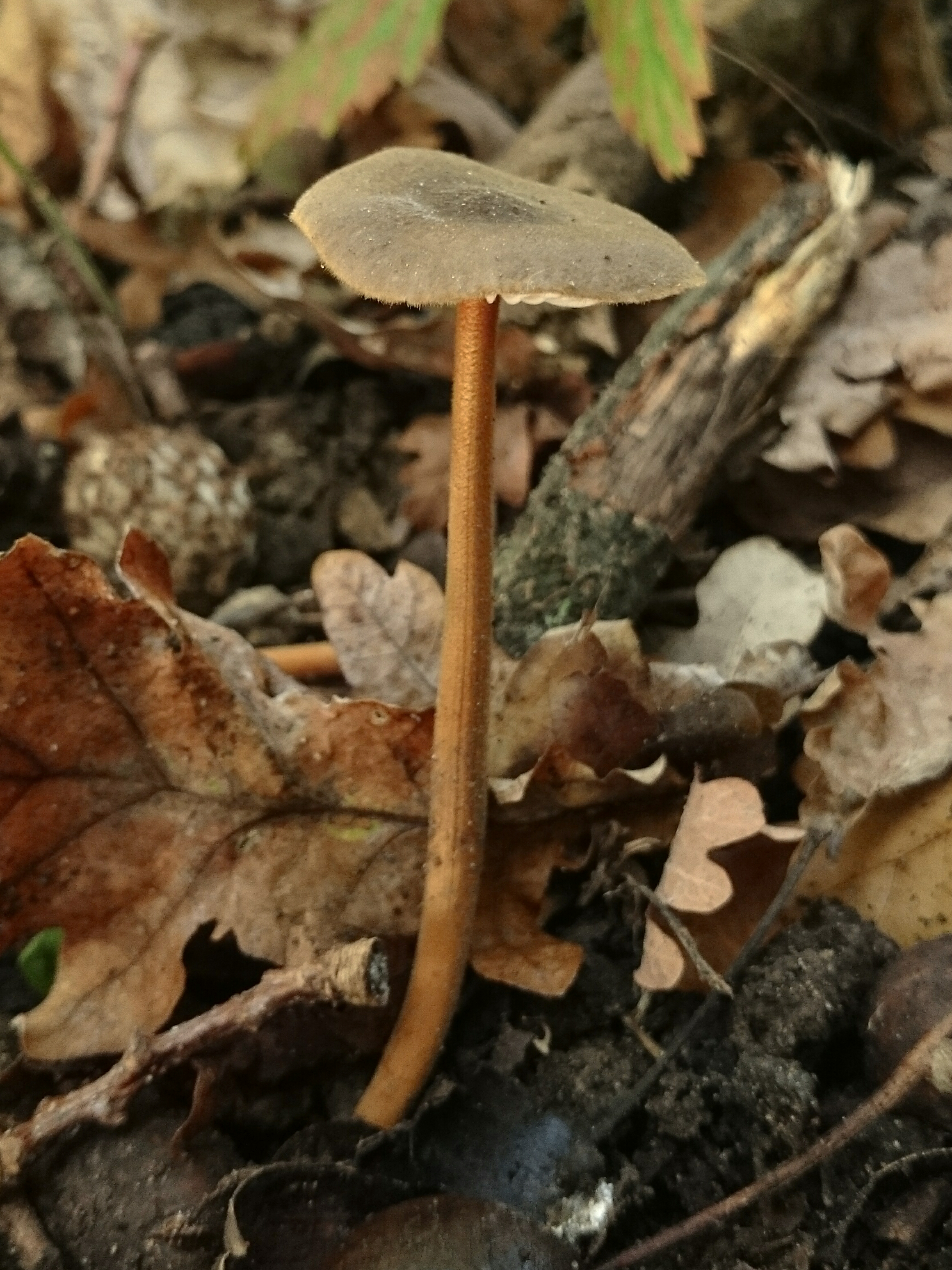 Xerula pudens (Pers.) Singer Image location: Landgoed Soelen, Zoelen, Gelderland, Netherlands Description of MHCB-16102903: Pileus: 27 × 7 mm; plano-convex with decurved margin and low umbo; entirely velutinose, margin fimbriate; tad rugulose around the centre; brown, darker in centre, reddish hairs on outmost margin; margin exceeds lamellae. Lamellae: L: 33, l: 1-3; barely touching the stipe, subdistand,; white; cystidia visible with 60x magn. Stipe: 11 × 4-5 mm; central, compressed at apex, cilindrical otherwise; radicating; longitudinally striate, almost costate near root; entirely hispid with shourt hairs that are brown, but gradually become more red towards apex; reddish brown surface, more of a copper red at apex. Context: Tough, quite flexible in both stipe and pileus, fairly distinct grooved in apex; firm and solid; white throughout. Smell/Taste: None to very faint spicy smell; mild, slightly “dark” flavour. Microscopy: None done Ecology: Associated with Quercus on mesotrophic, loamy soil, old lane. Notes: Dessicates very well, keeping most of its stature and colours. Beautiful mushroom! Recognized by sight: Small, hairy, beautifully coloured Xerula. For more information about this, see the observation page at Mushroom Observer.